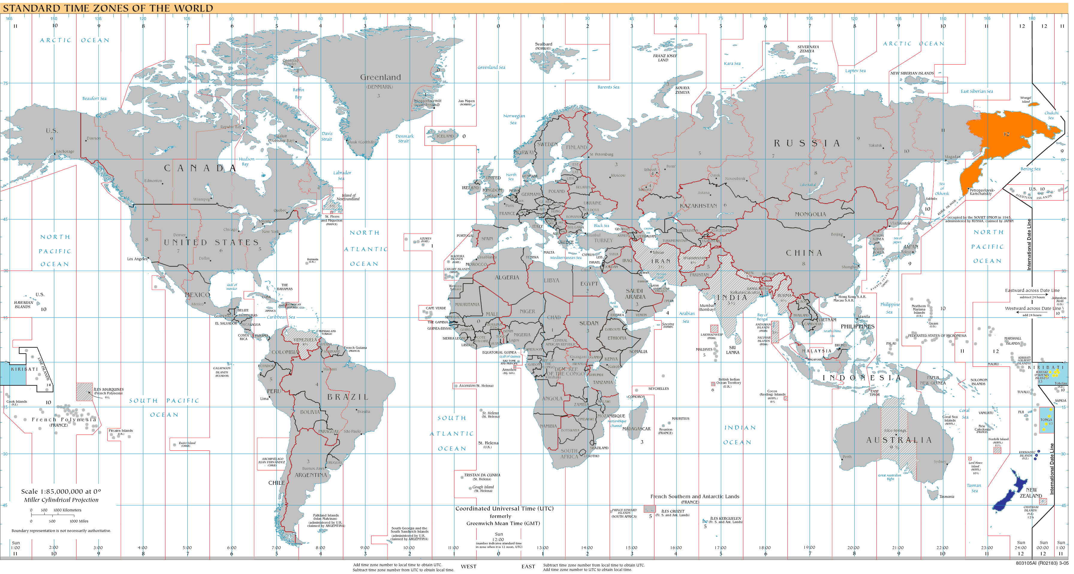 World map of time zones as of 2008, on the Miller Cylindrical Projection and with highlighted UTC+13 zone.